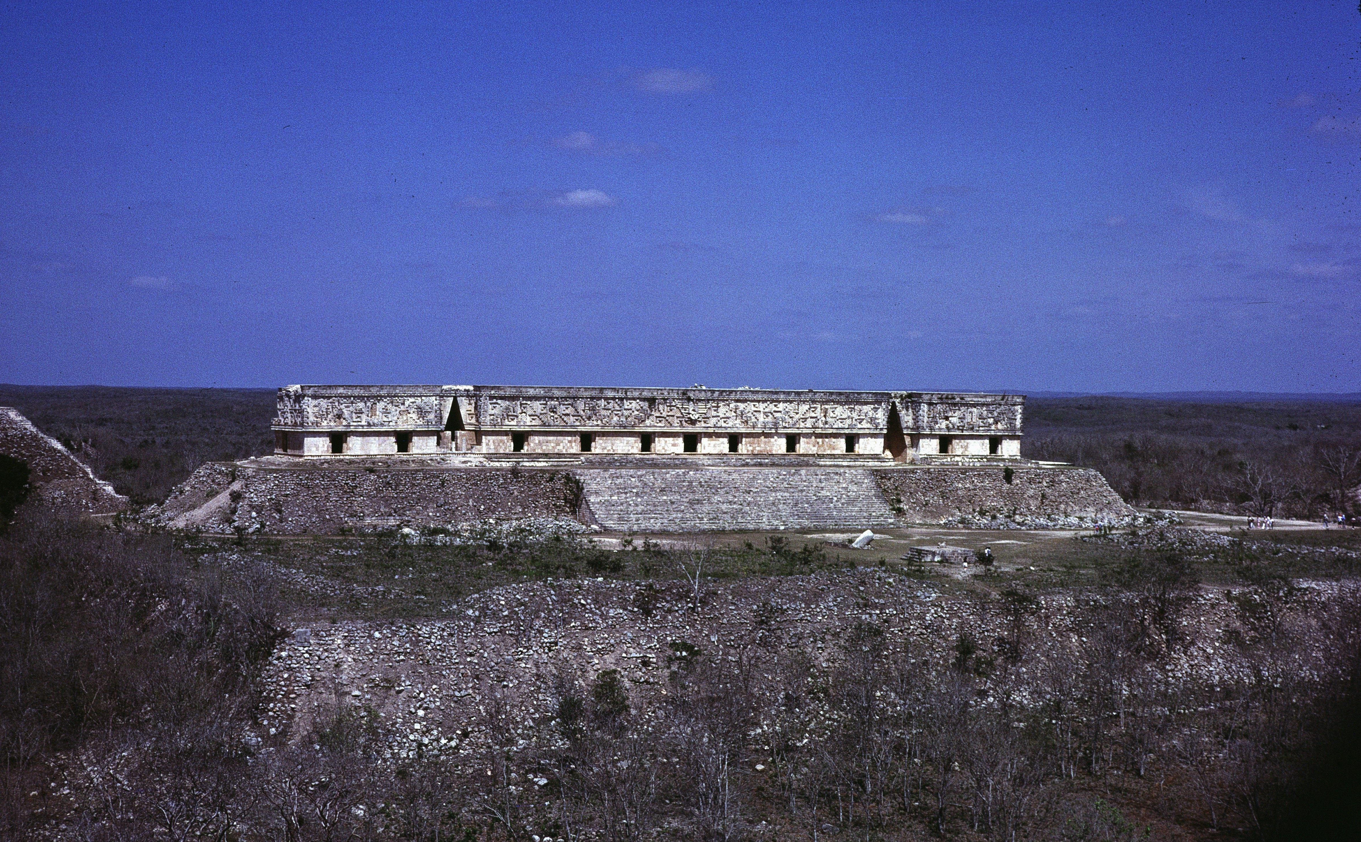 Uxmal, Yucatan, Mexico: Governeur's Palace